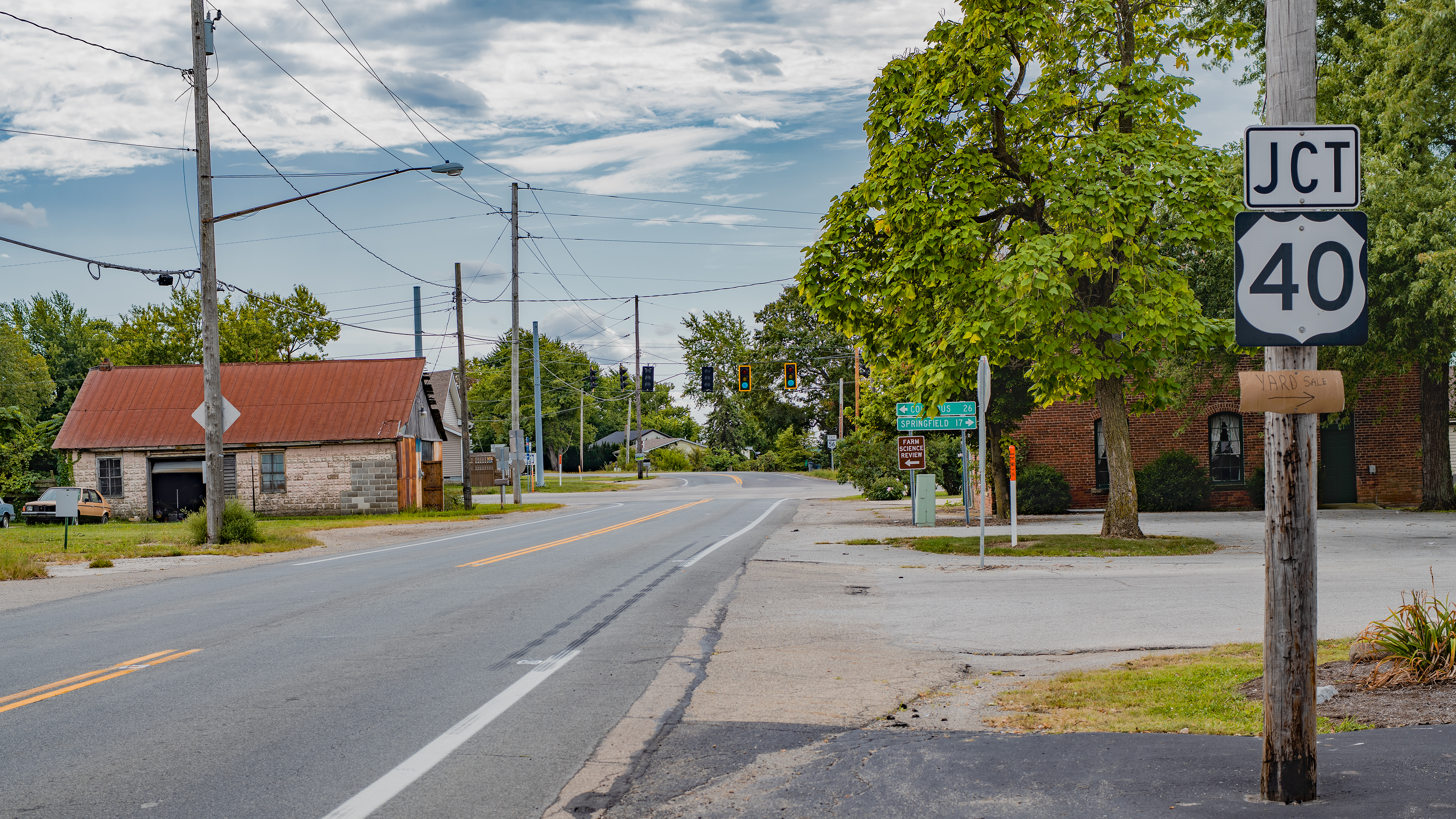 A view of Summerford, Ohio at the Junction of US Route 40 and State Route 56.